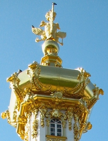 Petergof. Peterhof Grand Palace